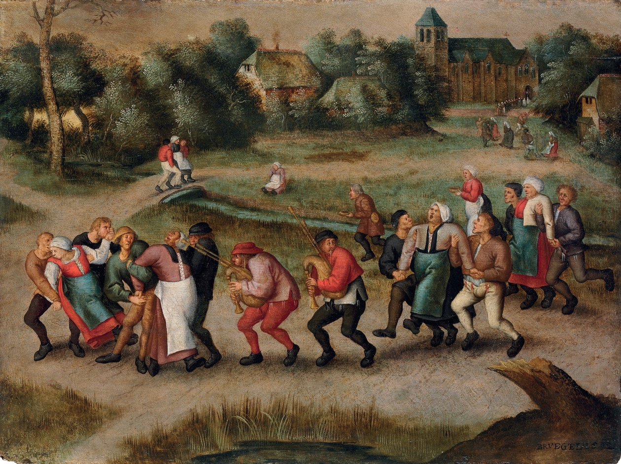 1592 painting by Pieter Brueghel II of Saint John’s Dancers on their way to Meulenbeeck (near Brussels) during the annual procession on the Feast Day of the Nativity of Saint John the Baptist. After a lost work of Pieter Bruegel I.